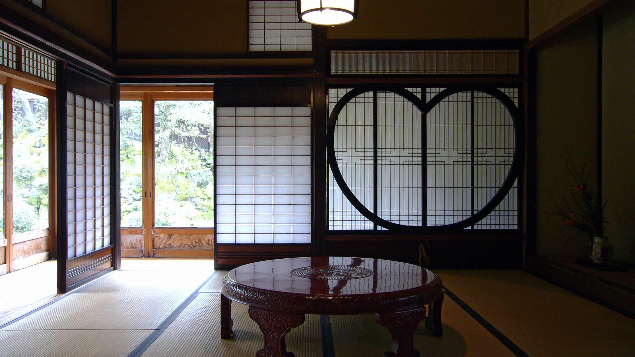 Ishitani Residence in Chidu-cho, Tottori prefecture, Japan